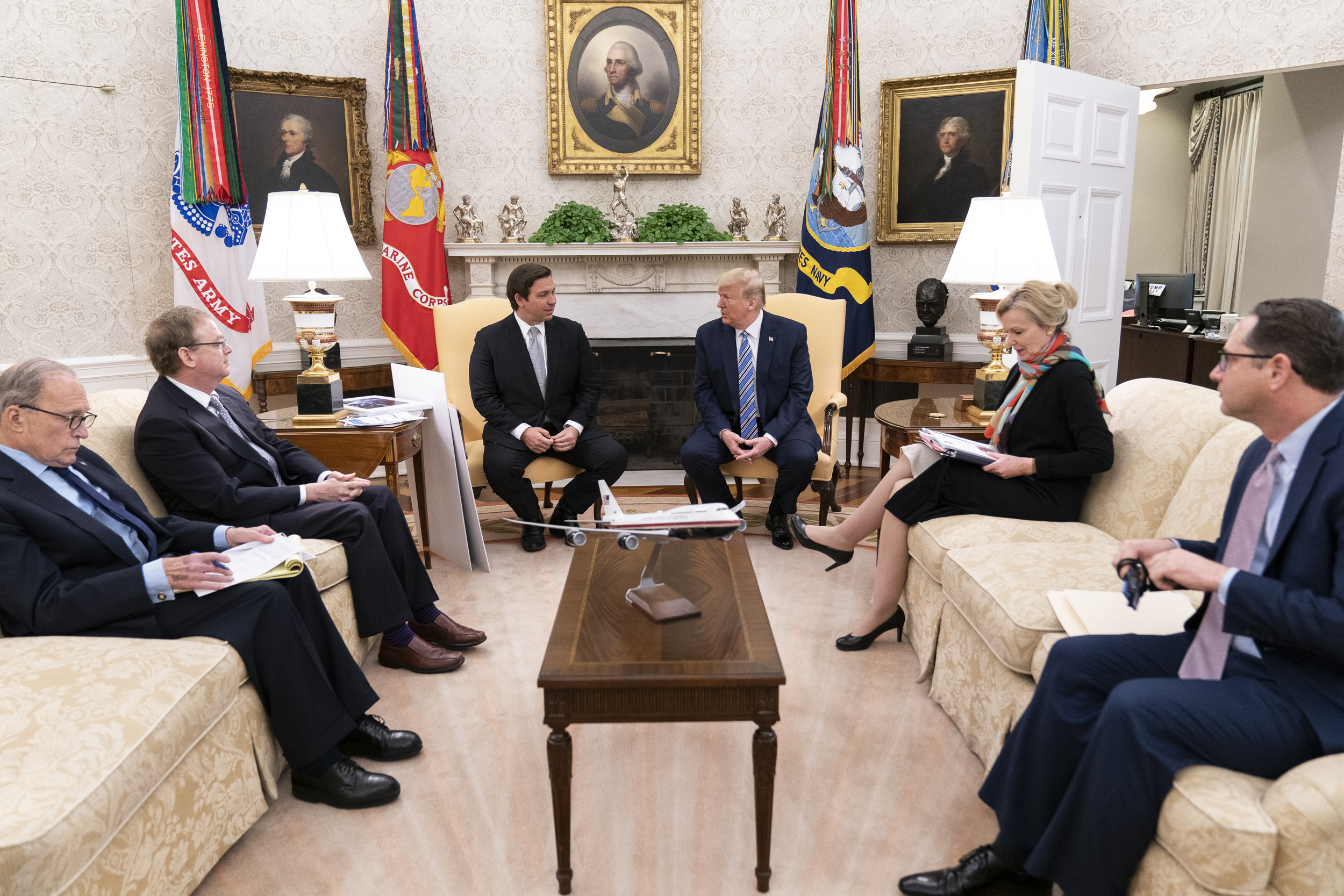 President Donald J. Trump meets with Florida Gov. Ron DeSantis Tuesday, April 28, 2020, in the Oval Office of the White House. (Official Photo by Shealah Craighead)